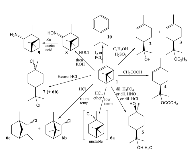 Some general reactions of alpha-pinene. Drawn in ChemDraw by User:Walkerma, January 2006.